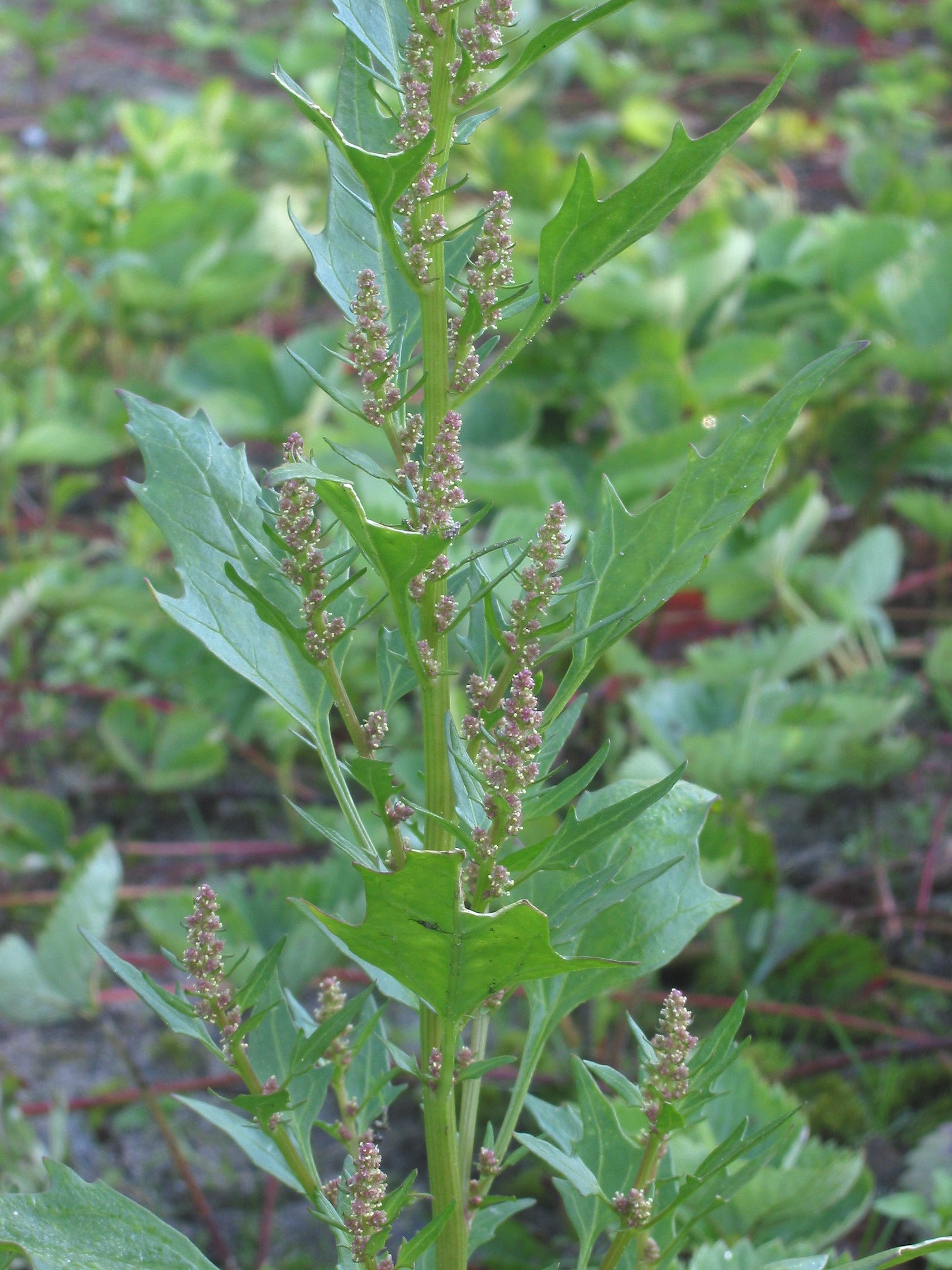 Chenopodium rubrum inflorescence